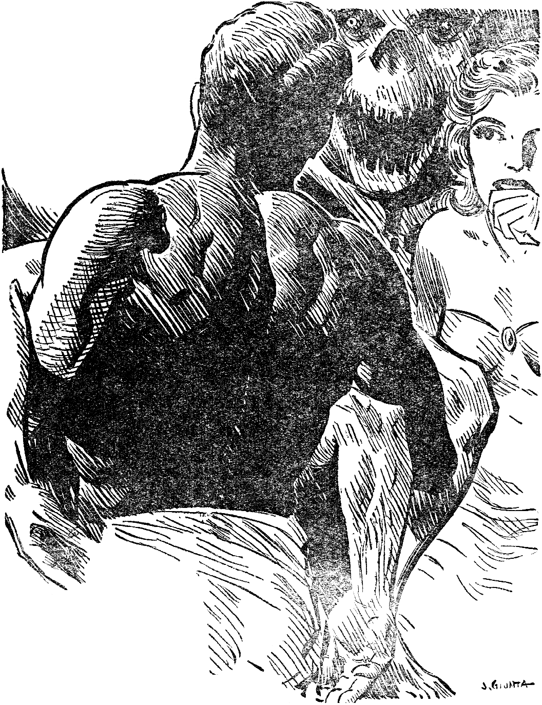 Drawing of a muscled man, a frightened woman and a skull-like apparition. Main illustration for the story "At the End of the Corridor". Internal illustration from the pulp magazine Weird Tales (May 1950, vol. 42, no. 4, page 74).